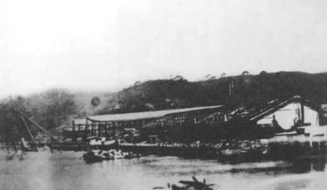 Sunken_Yongbao.